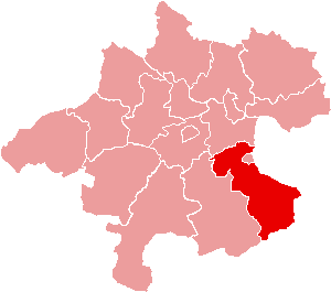 Location of Bezirk Steyr-Land within the Land of Upper Austria